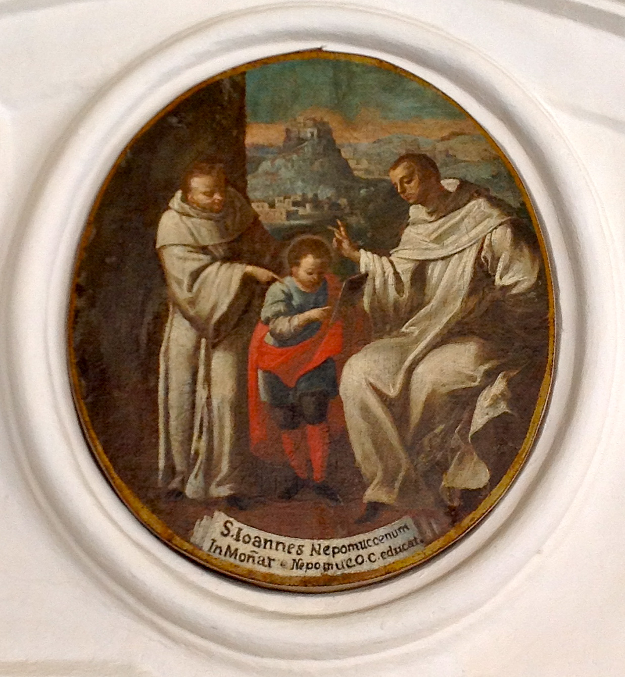 Bohemian priest and martyr, fresco in Rein Abbey, Austria